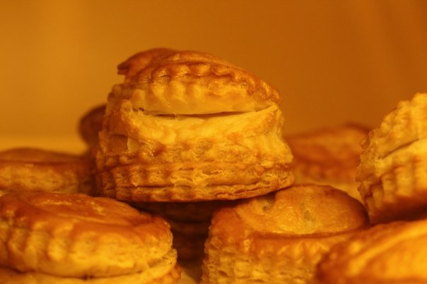 Freshly baked Chicken patties.